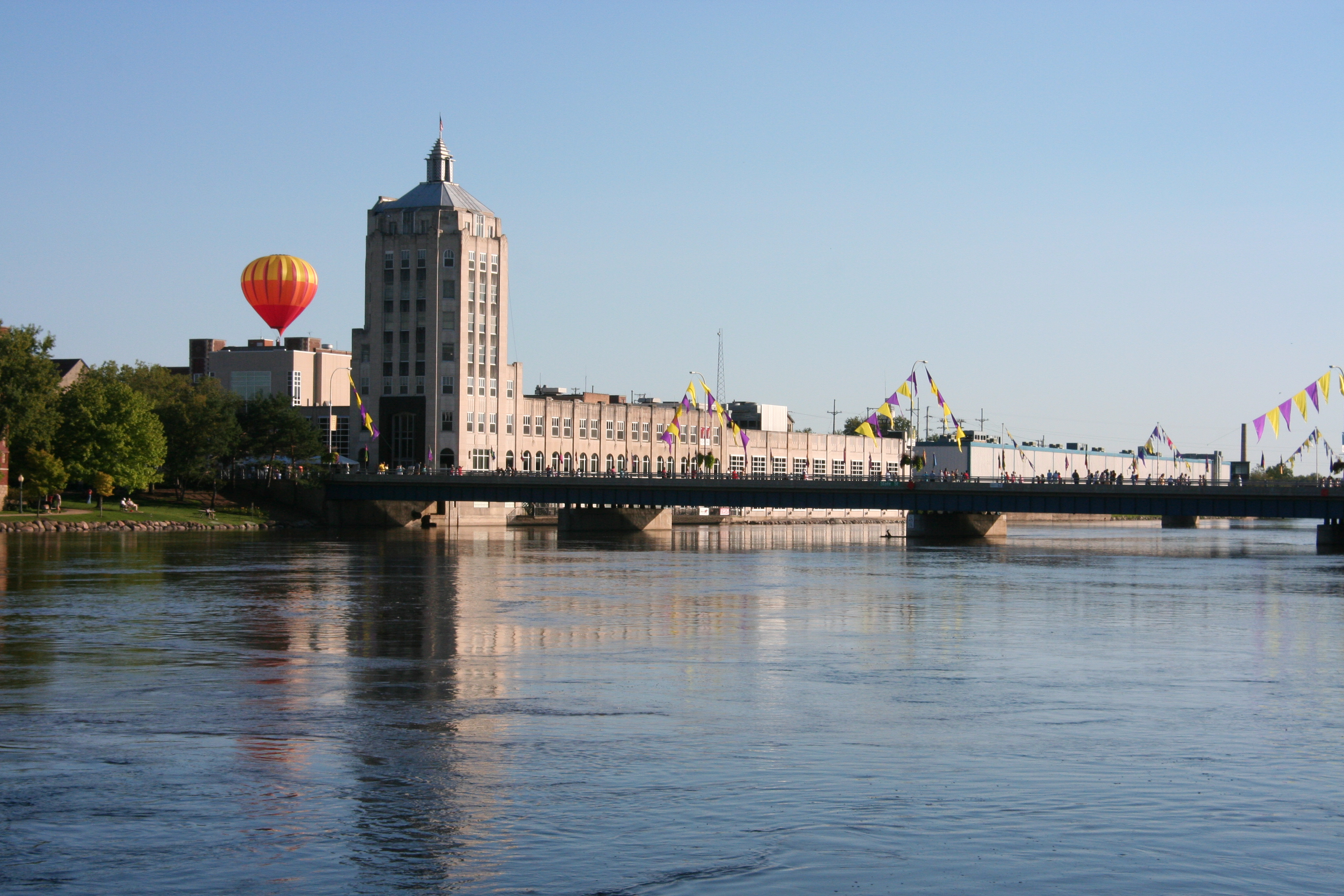 The Rockford Register Star building in downtown Rockford, Illinois, USA.